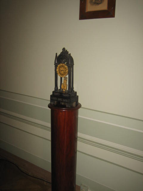 Real clocks of Alexander Pushkin in Pushkin museum на Moyka River, 12, Saint Petersburg